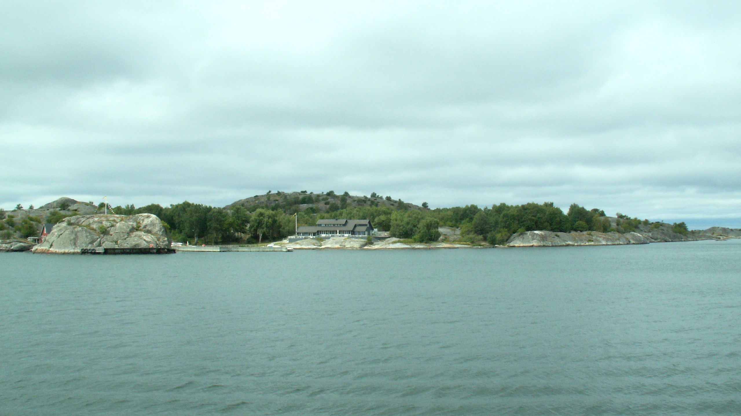 Stora Mosskullen.